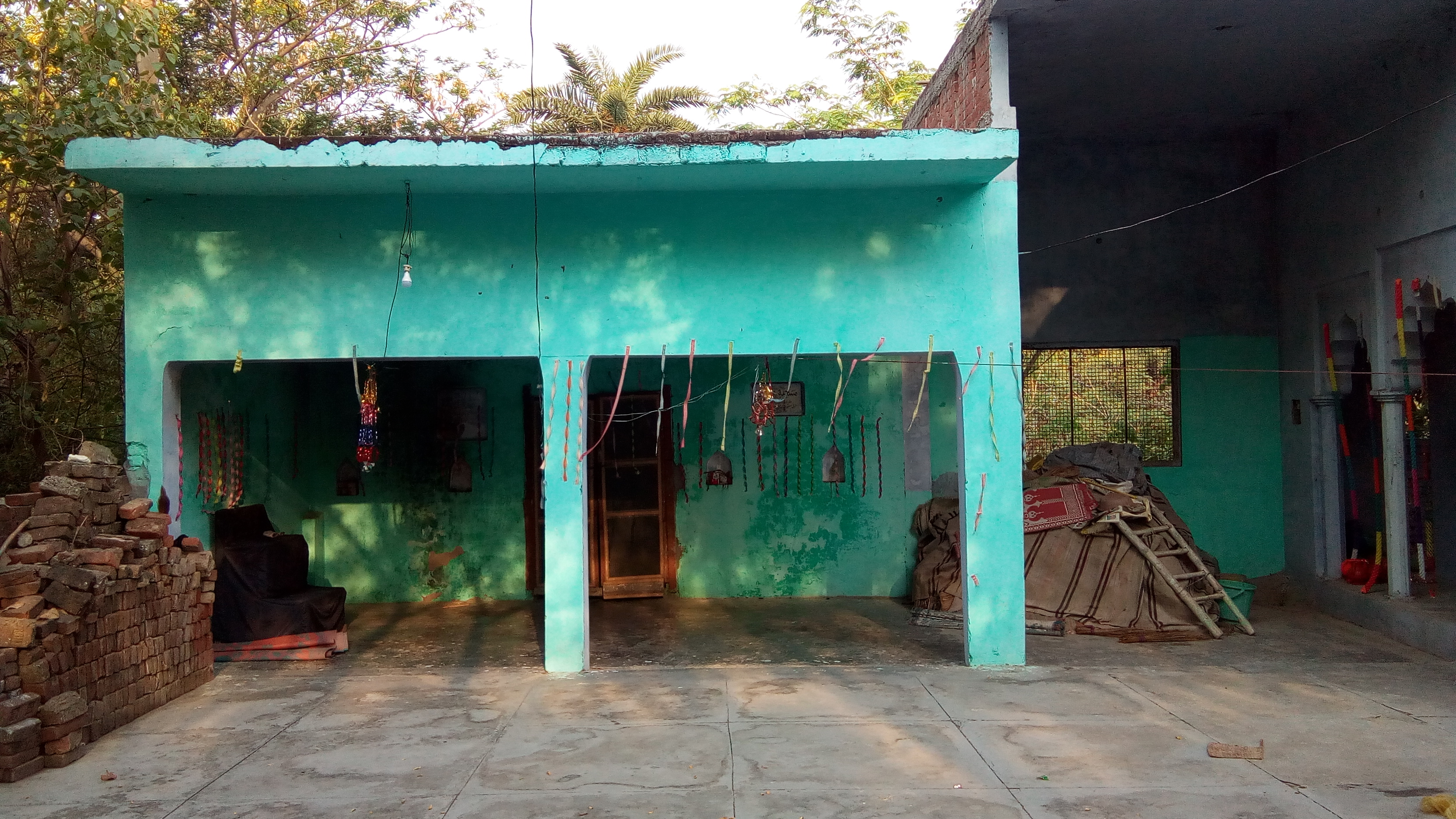 First Mosque of Saithal situated at Khera, Build by Syed Amaan Ullaah in 16th CE .who's known as founder of Sadaat-e-Saithal